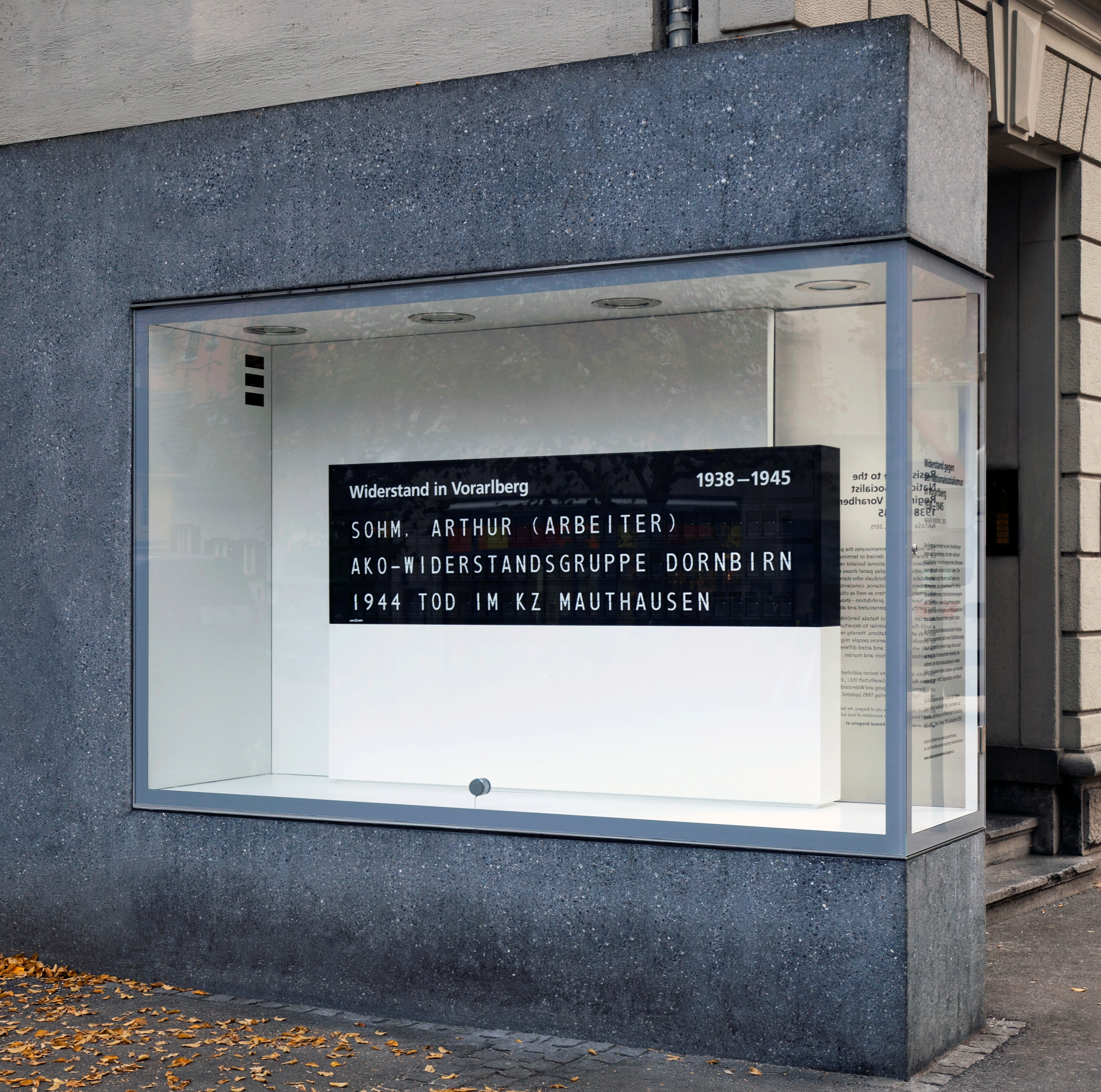 Memorial to the resistance against National Socialism in Bregenz (Vorarlberg, Austria).